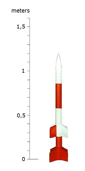 Baby rocket shape.